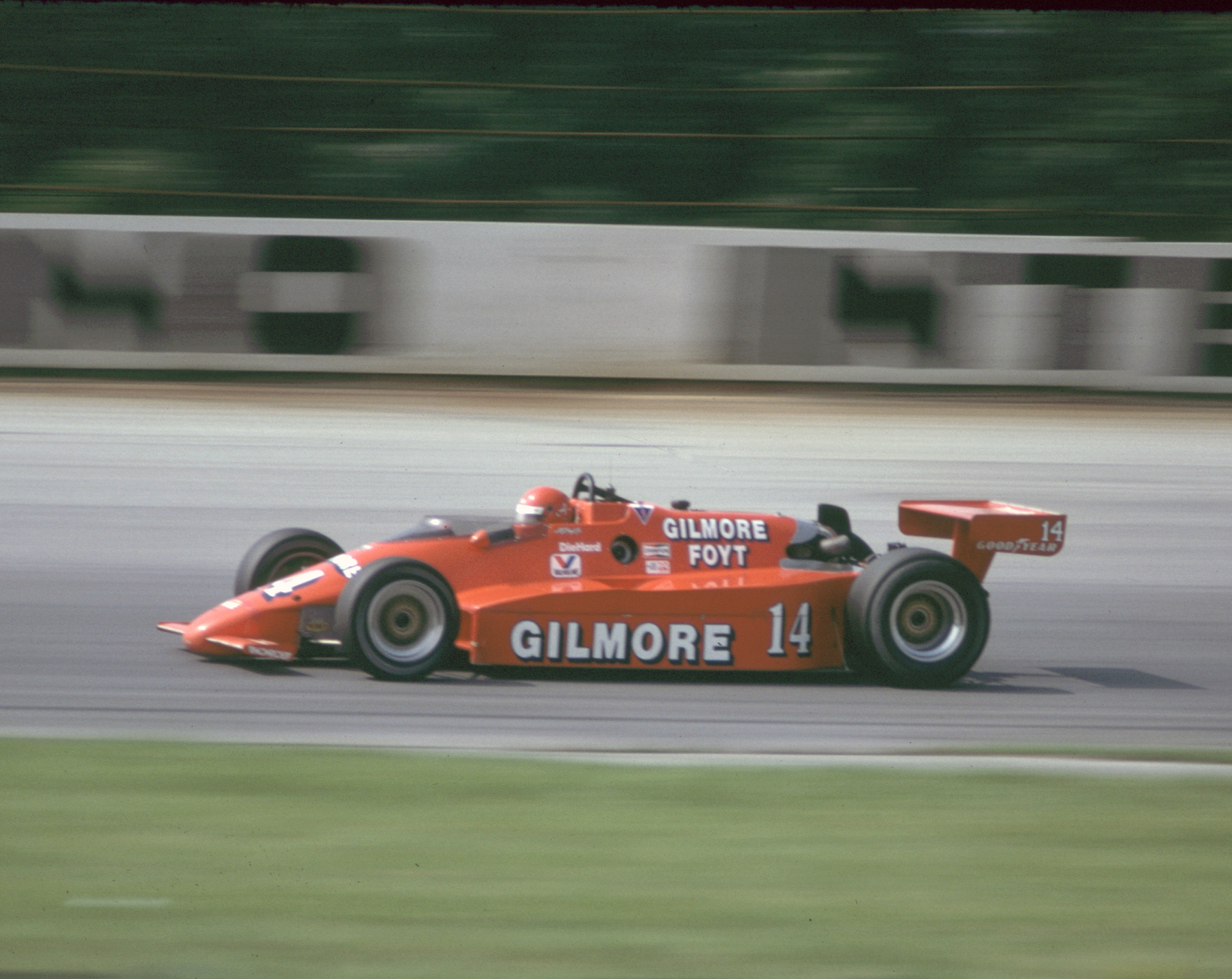 A. J. Foyt races in his Indycar at Pocono Raceway in 1984. Photo By Ted Van Pelt